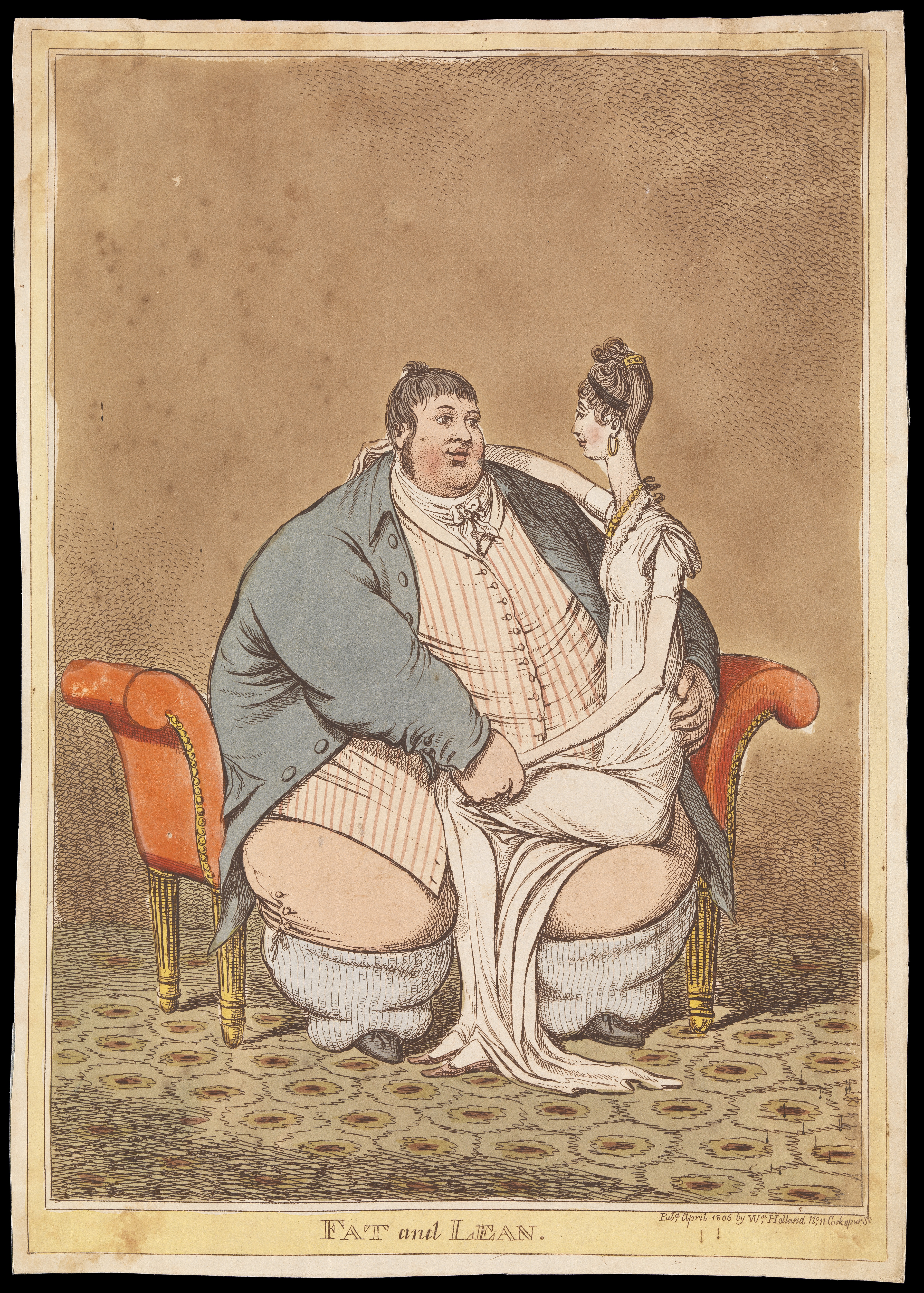 Daniel Lambert contrasted with a thin woman seated on his knee. Coloured etching by C. Williams, 1806 "Daniel Lambert sits on a bergere holding a very thin and elongated woman seated on his left. knee which forms a broad and soft cushion. She wears a fashionably clinging dress."--British Museum catalogue, loc. cit. Iconographic Collections Keywords: Daniel Lambert; Charles Williams